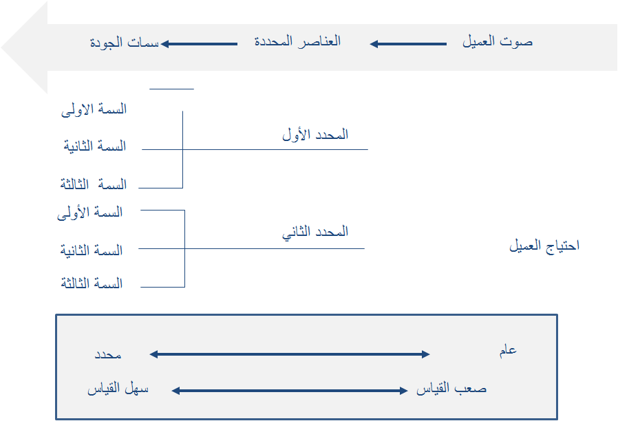 CTQ tree